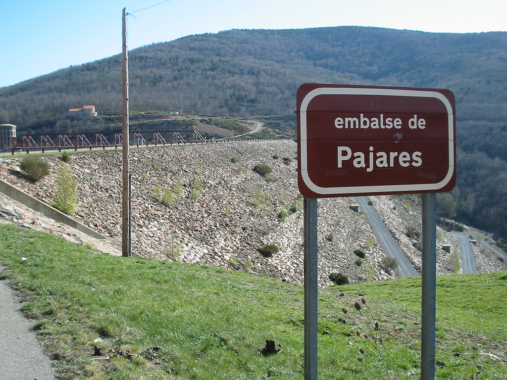 Pajares Dam, on the way from Logroño to Soria (N-111), in La Rioja, Spain